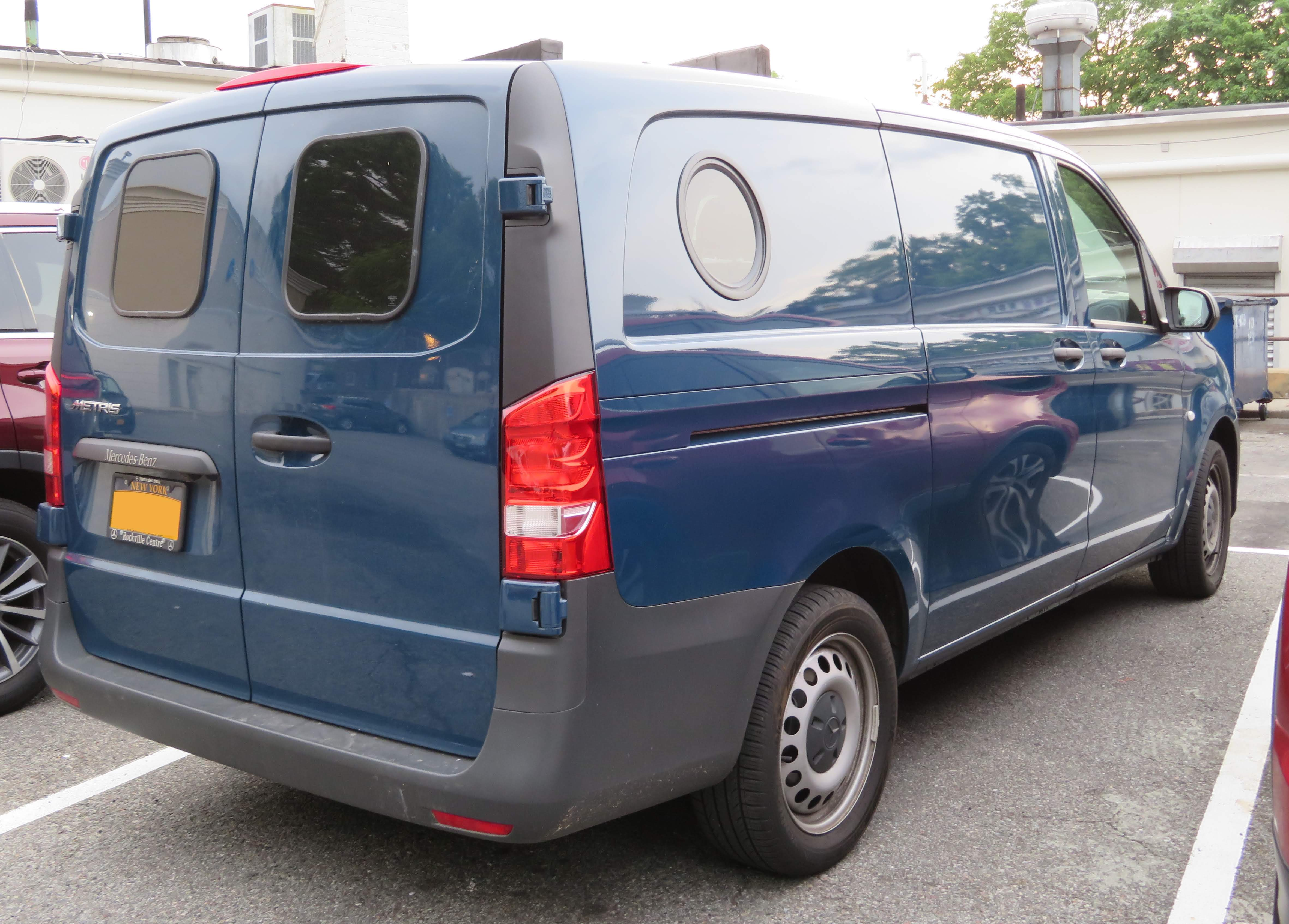 Photographed in Little Neck(Queens), New York